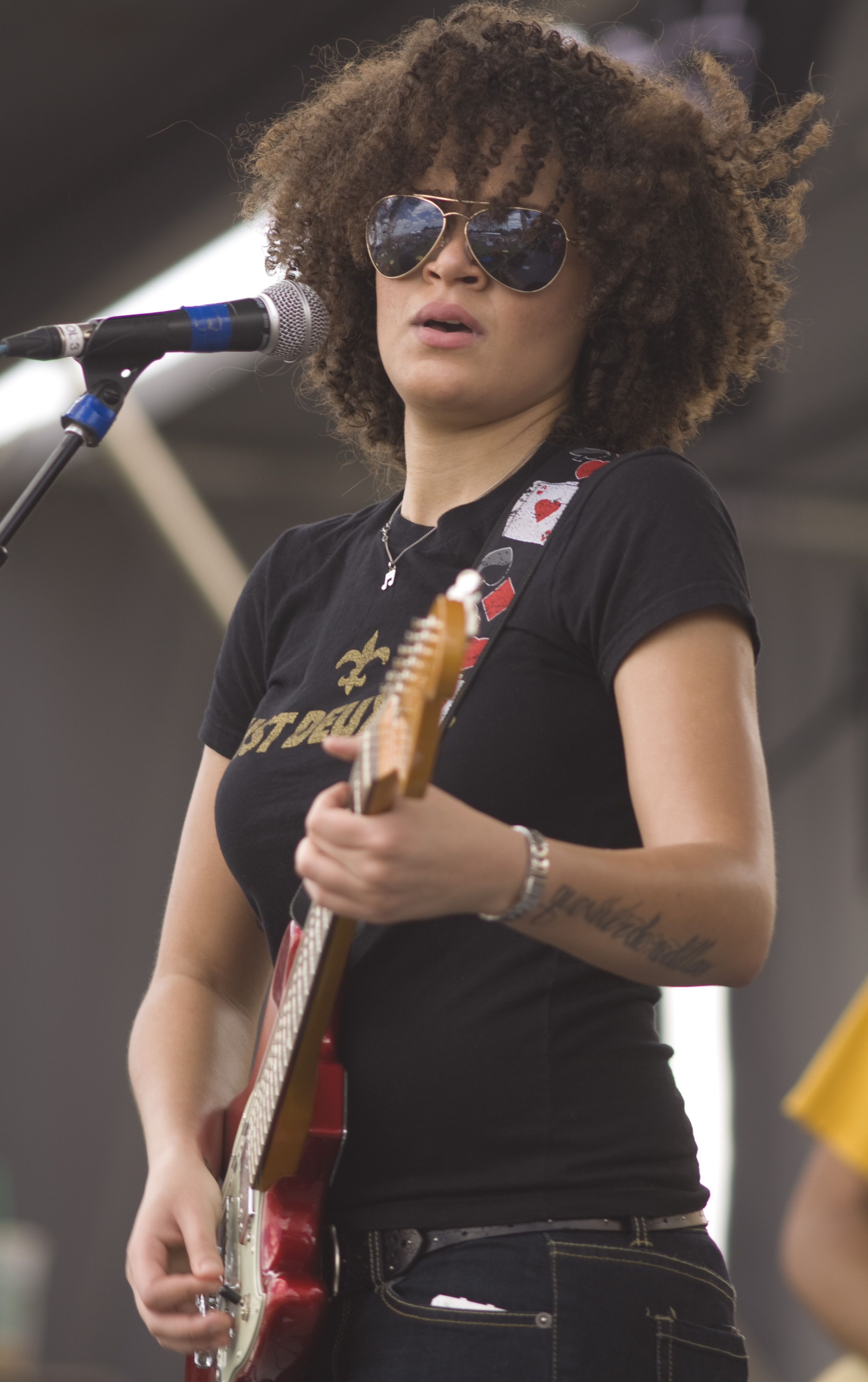 Mia Borders performing at French Quarter Fest